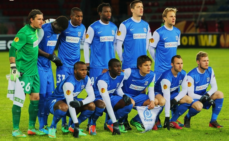 Genk 2014